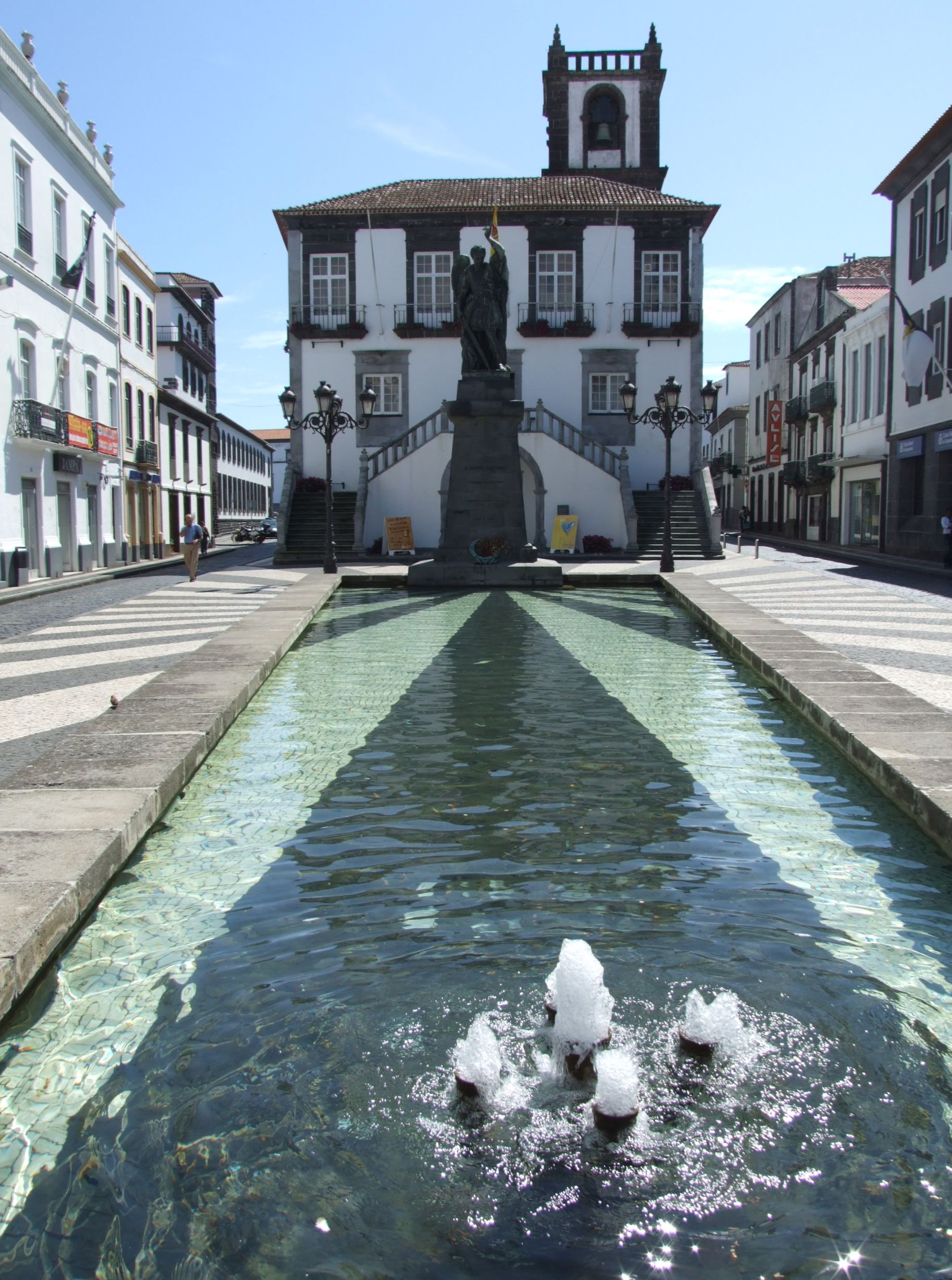 Ponta Delgada, Sao-Miguel, Azores, Portugal